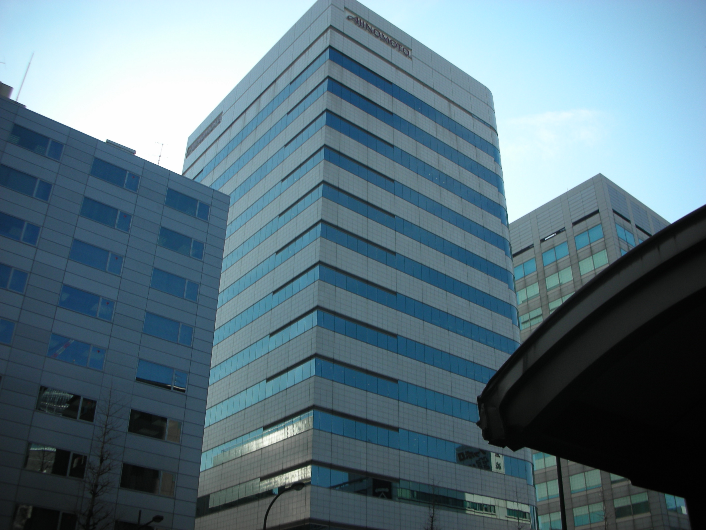 Ajinomoto head office